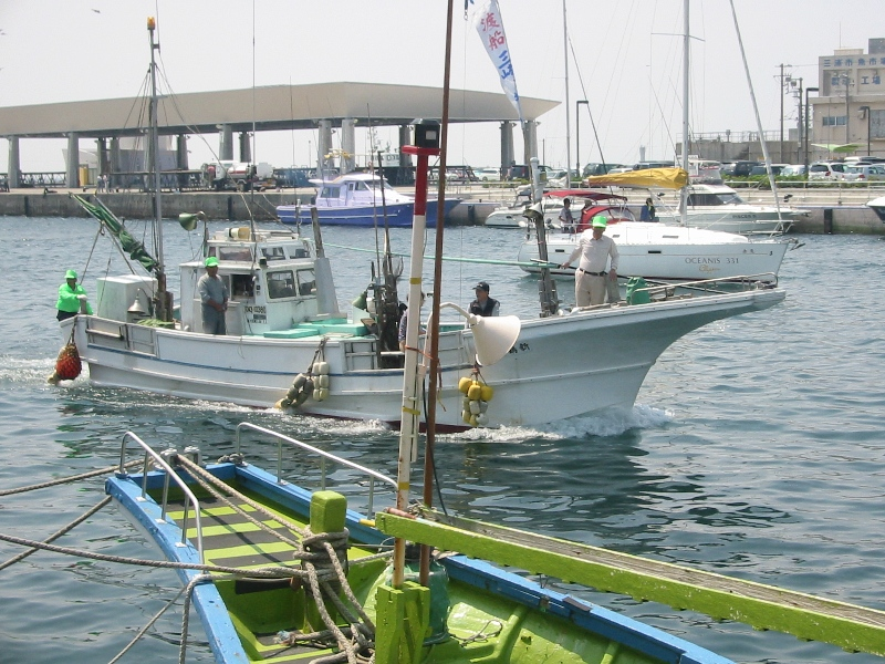 A small fishing boat in Misaki harbour.